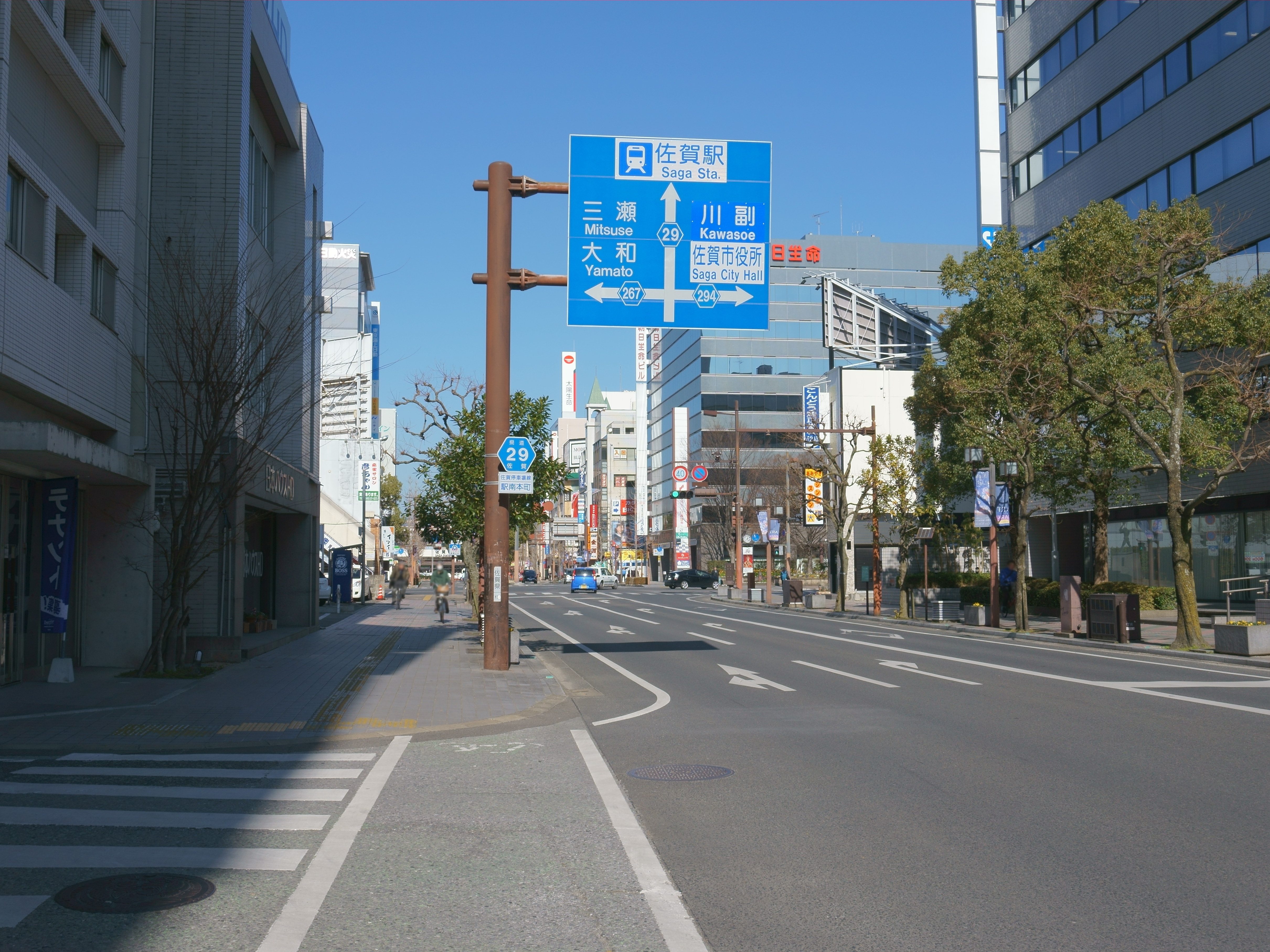 The "Chūō-Ohdōri" street in Ekiminamihonmachi, Saga city.